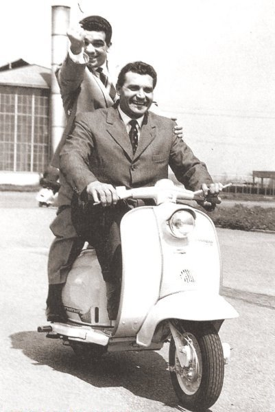 Italian athletes Adolfo Consolini (front) and boxer Duilio Loi (rear)